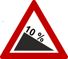 Diagram of road signs of Luxembourg